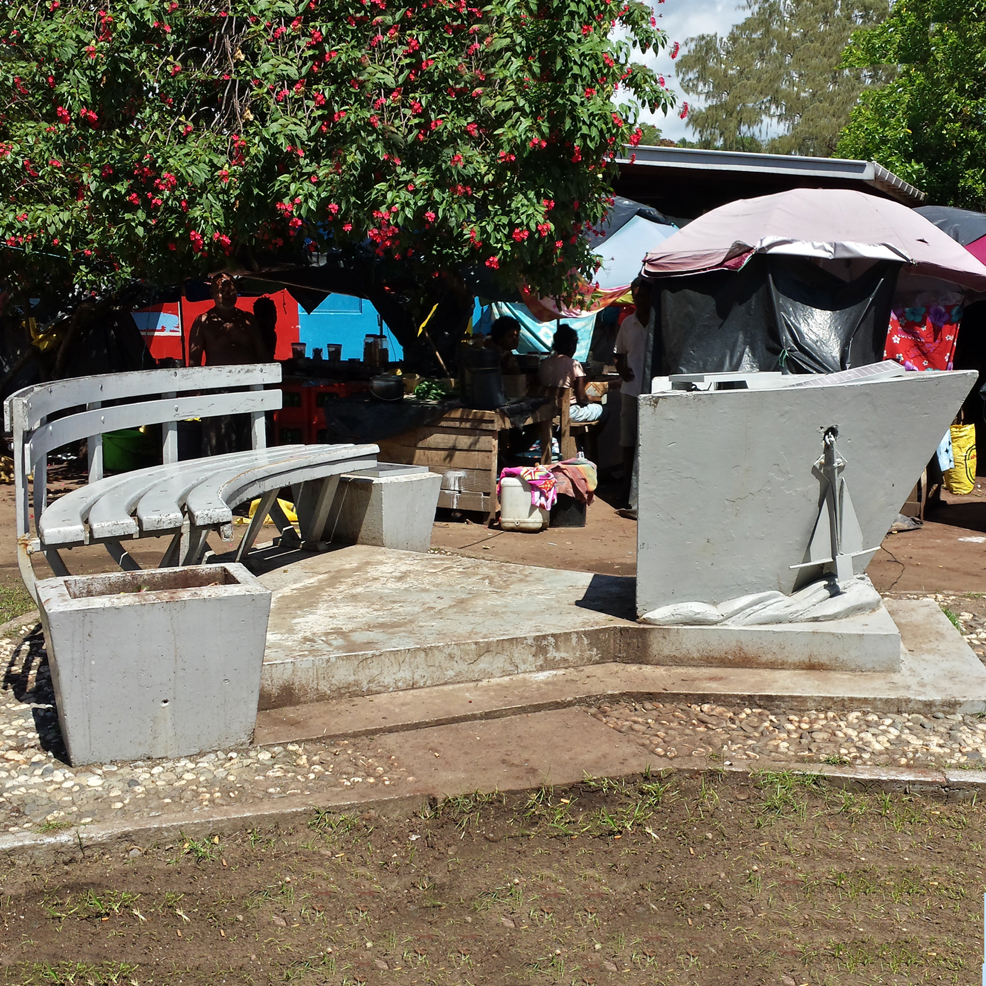 Side view of HMAS Canberra memorial, Police Memorial Park, Rove Honiara Solomon Islands